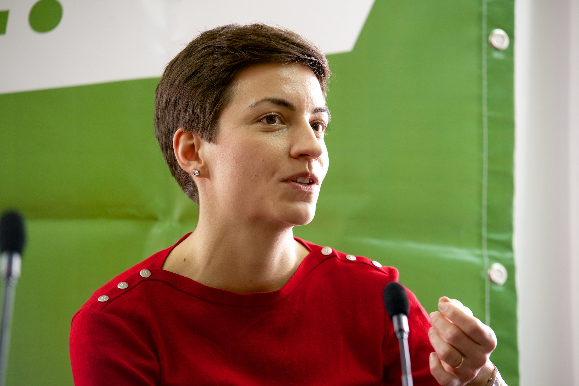 #GreenPrimary en Madrid